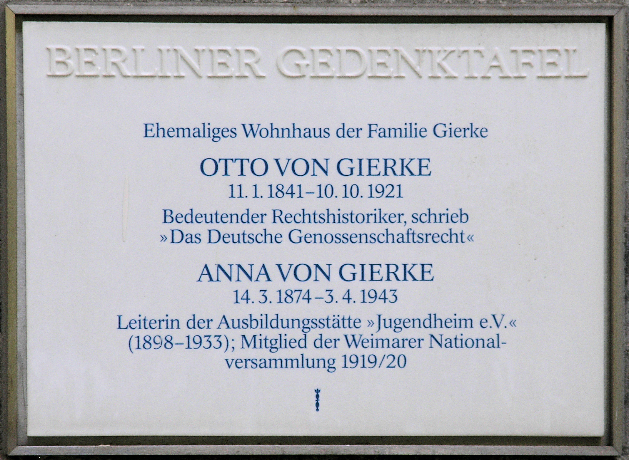 Berlin memorial plaque, Otto von Gierke, Carmerstraße 12, Berlin-Charlottenburg, Germany Koordinate:52°30′25.3″N 13°19′26″E / 52.507028°N 13.32389°E